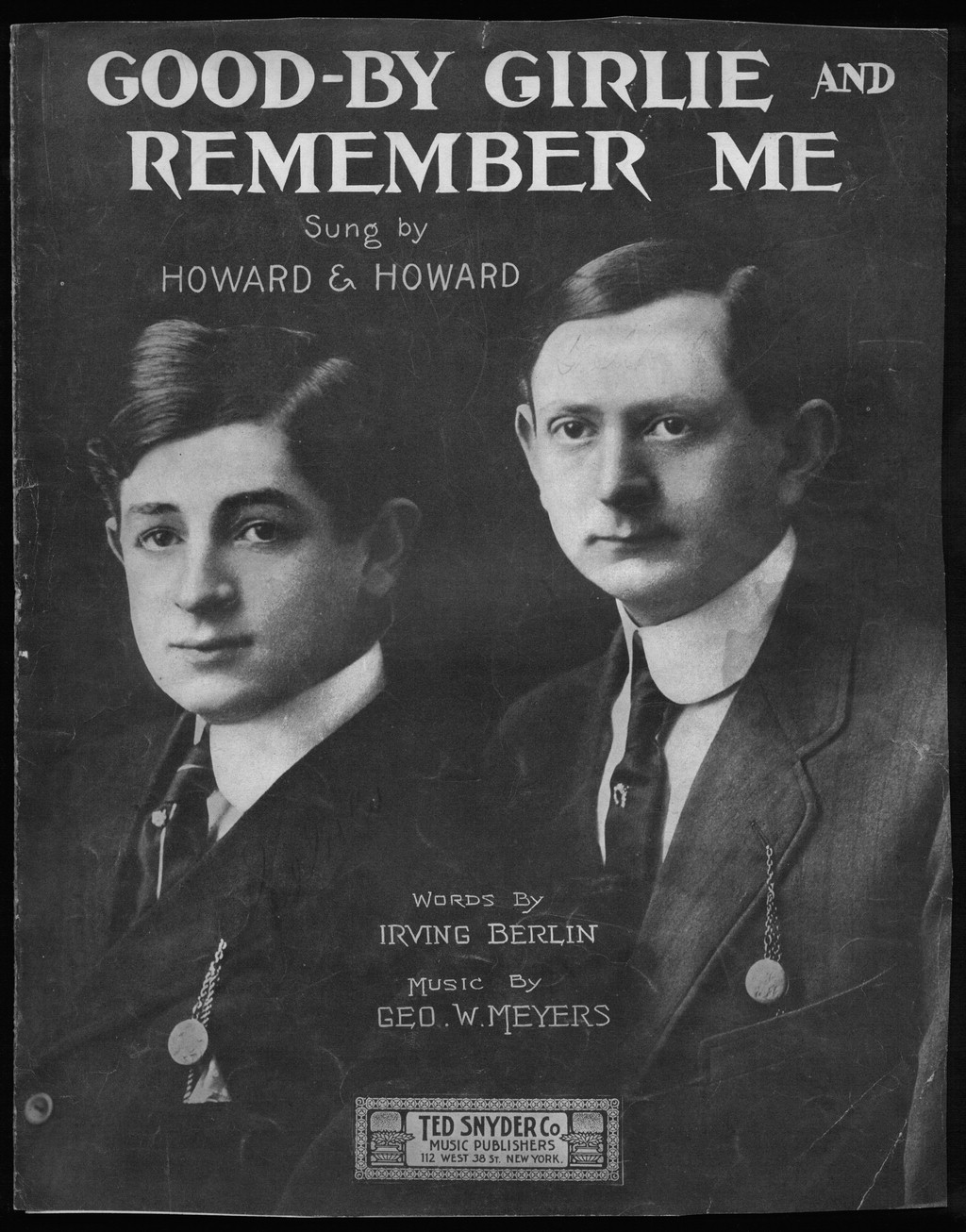 "Good Bye, Girlie, and Remember Me" sheet music (page 1 of 5)